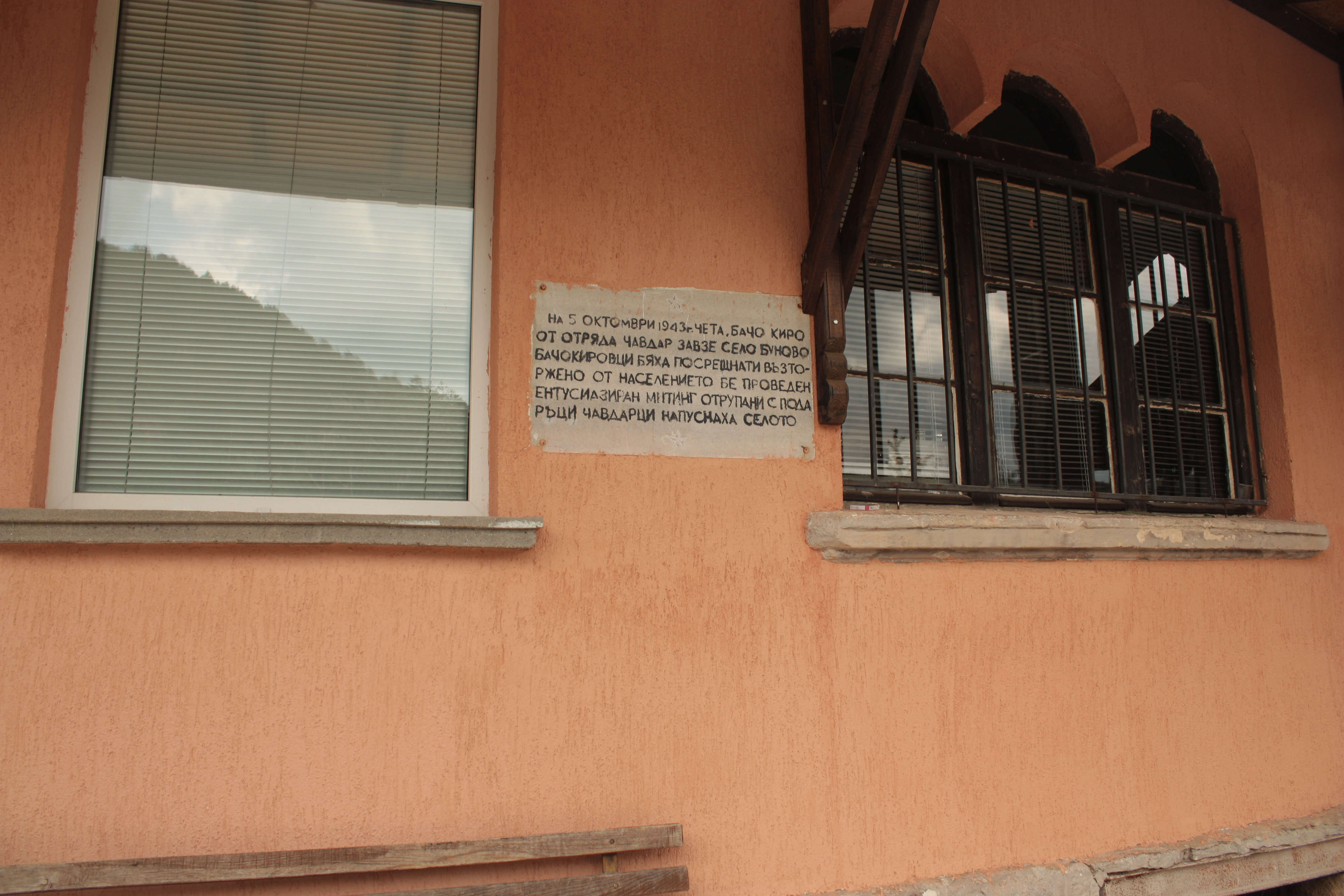 A partizan memorial plate in Bunovo